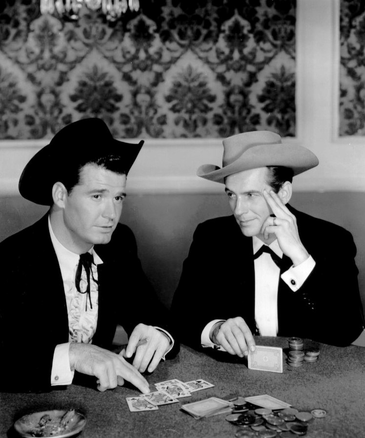 Photo of James Garner as Bret Maverick and Jack Kelly as Bart Maverick. The episode is "Hostage" and this was the introduction of Kelly's character into the television series.